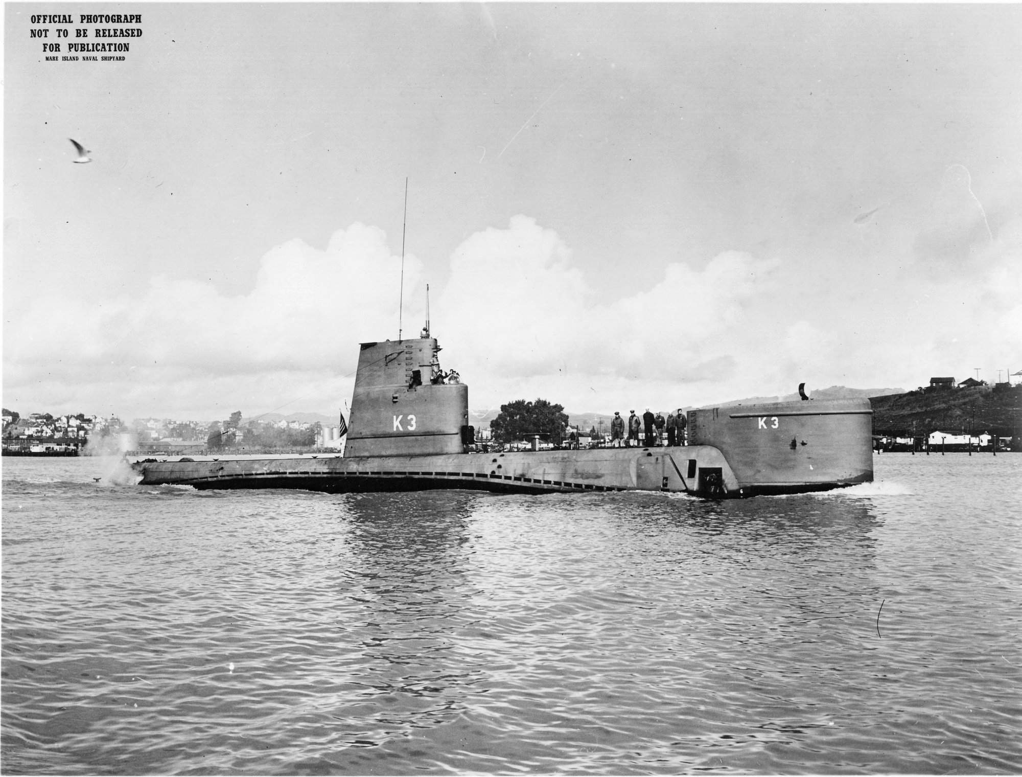 navy photo of Bonita (SSK-3) from navsource